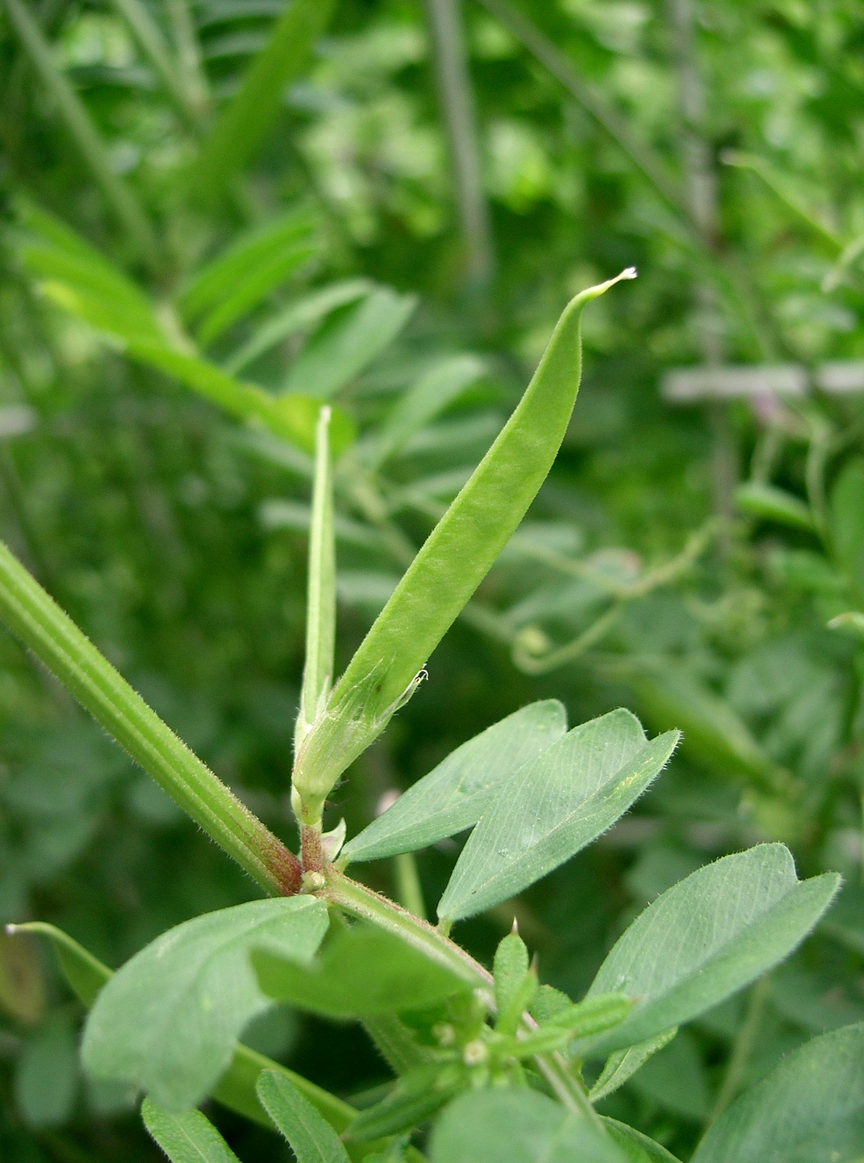 Place:Osaka-fu Japan Scientific name Vicia angustifolia (synonym: V. angustifolia var. segetalis)